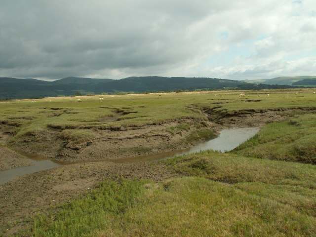 Dyfi estuary. Channels through the mud and saltmarsh on the S side of the Dyfi estuary at mid-tide. The sheep grazing on the marsh are the source of saltmarsh lamb, widely regarded as a great delicacy.